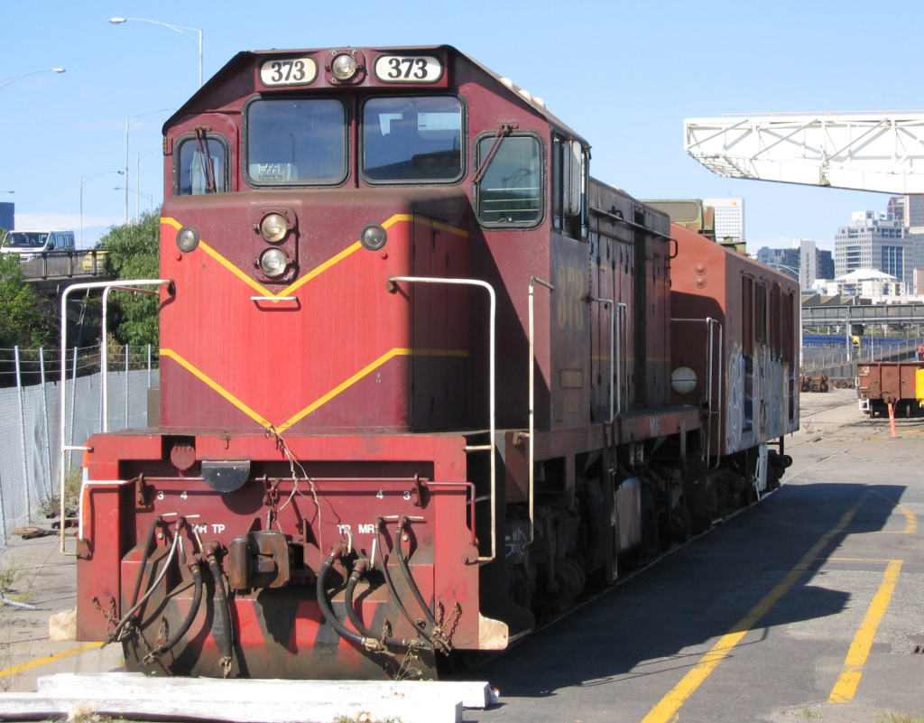 Former "Great Northern Rail Services" T class T373 in 2005.